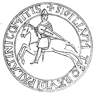 Theobald II of Champagne